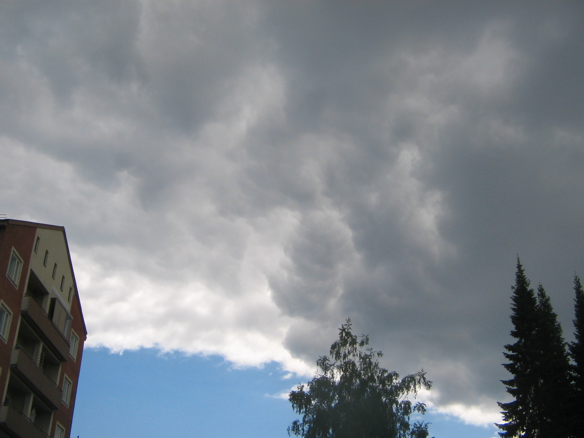 Weather/Clouds/Cumulus congestus-cloud transforms to strarocumulus, and causes mammatus-like structures, those are sometimes like rings around cumulus cloud.